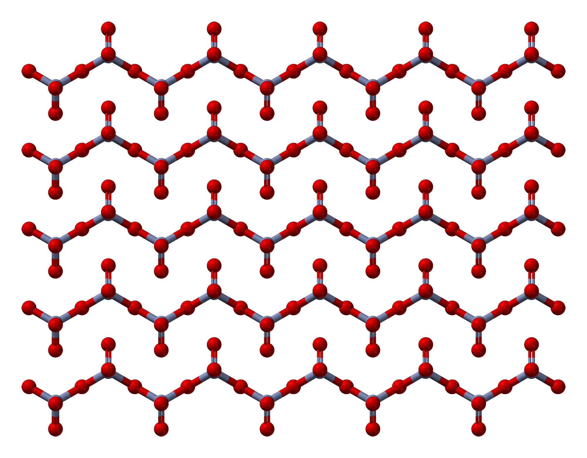 Ball-and-stick model of part of the crystal structure of chromium trioxide, CrO3. Colour code: Chromium, Cr: blue-grey Oxygen, O: red Structure by X-ray crystallography from Acta Cryst. B (1970) 26, 222-226. Model manipulated in CrystalMaker 8.3. Image generated in Accelrys DS Visualizer.